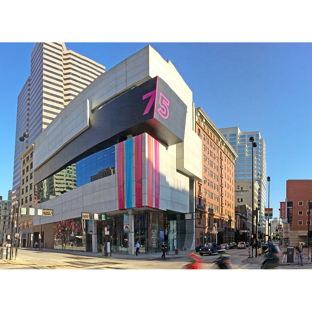 Panorama view of Center for Contemporary Art looking northwest